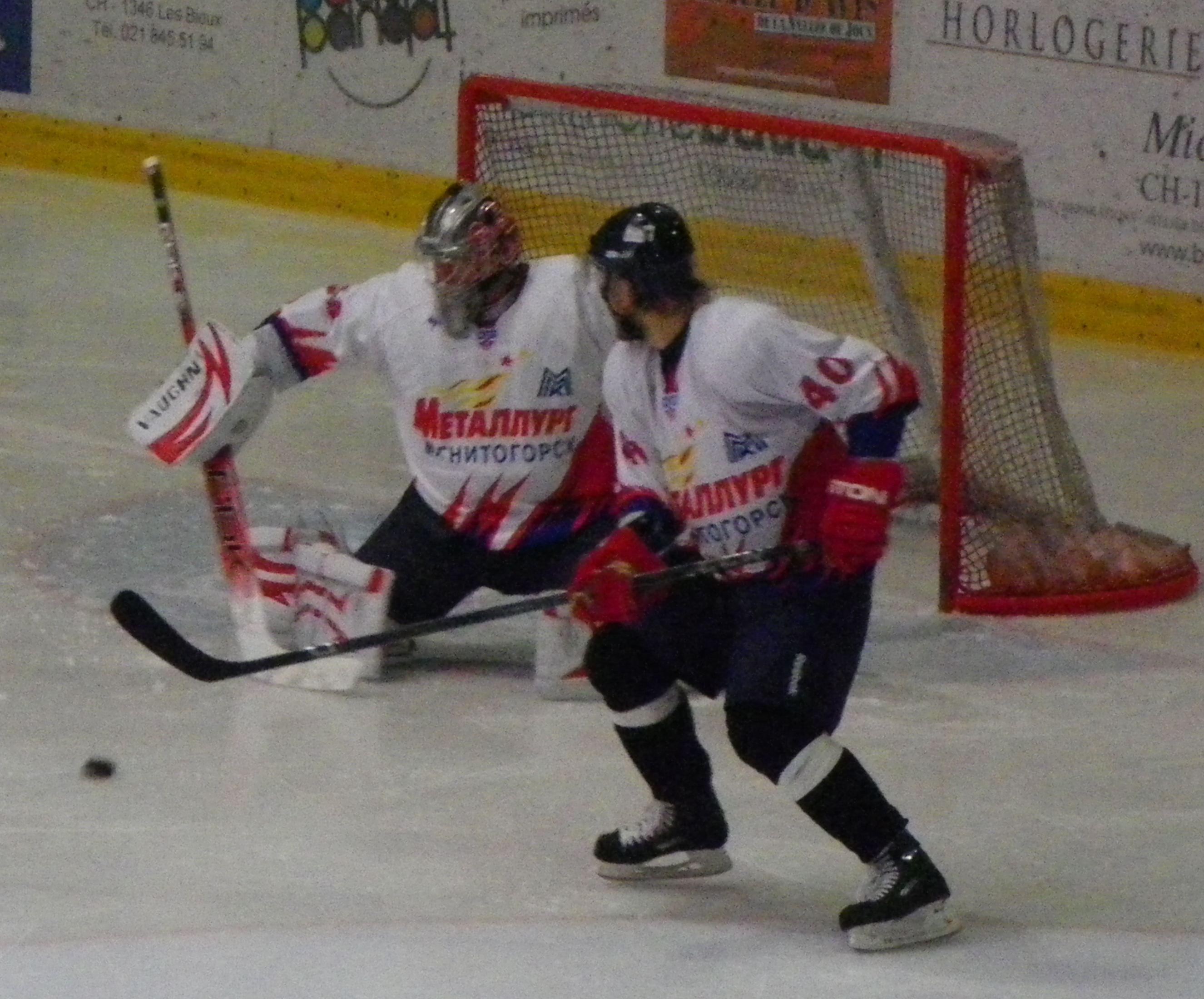 Georgi Gelashvili, Aleksandr Seluyanov russian ice hockey players with Metallurg Magnitogorsk